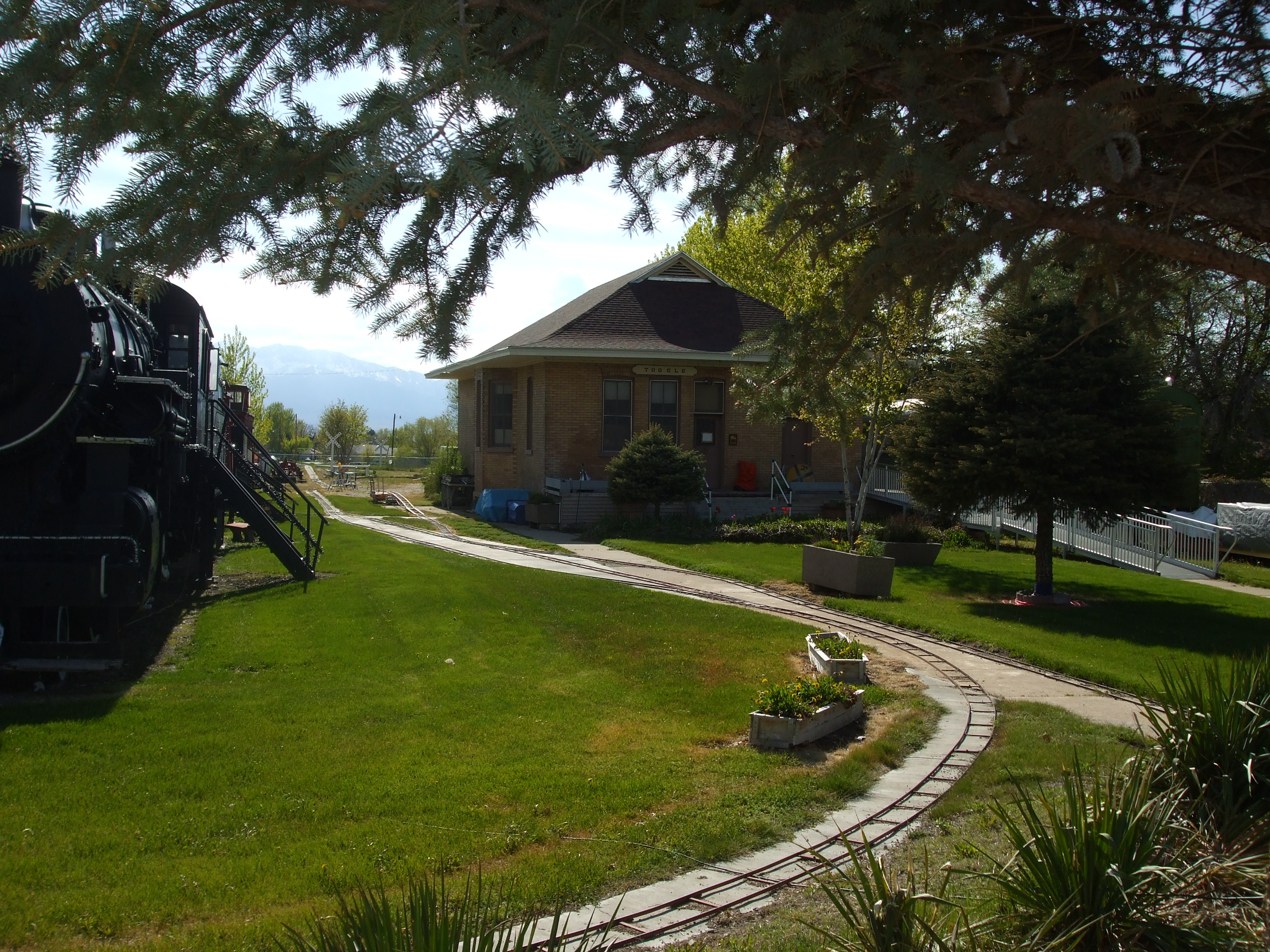 The Tooele Valley Railroad Complex, a historic site in Tooele, Utah, United States.